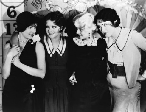 Promotional photo of Clara Bow, Jean Arthur, Jean Harlow and Edna May Oliver in the American romantic comedy The Saturday Night Kid (1929).